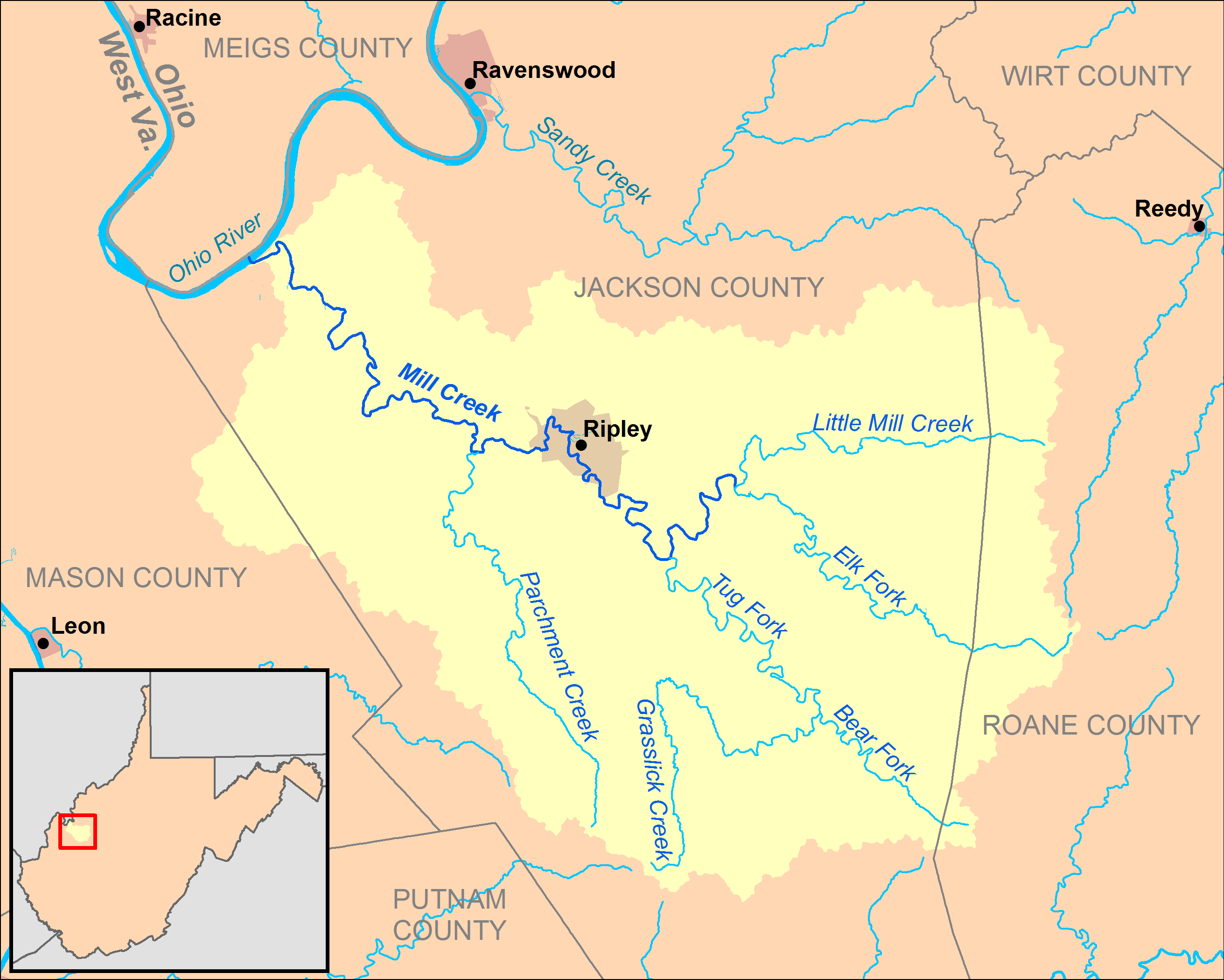 A map of Mill Creek and its watershed (USGS HUC-12 codes 050302020601, 050302020602, 050302020603, 050302020604, 050302020605, 050302020606, 050302020607, and 050302020608) in Jackson, Mason, and Roane counties in West Virginia.